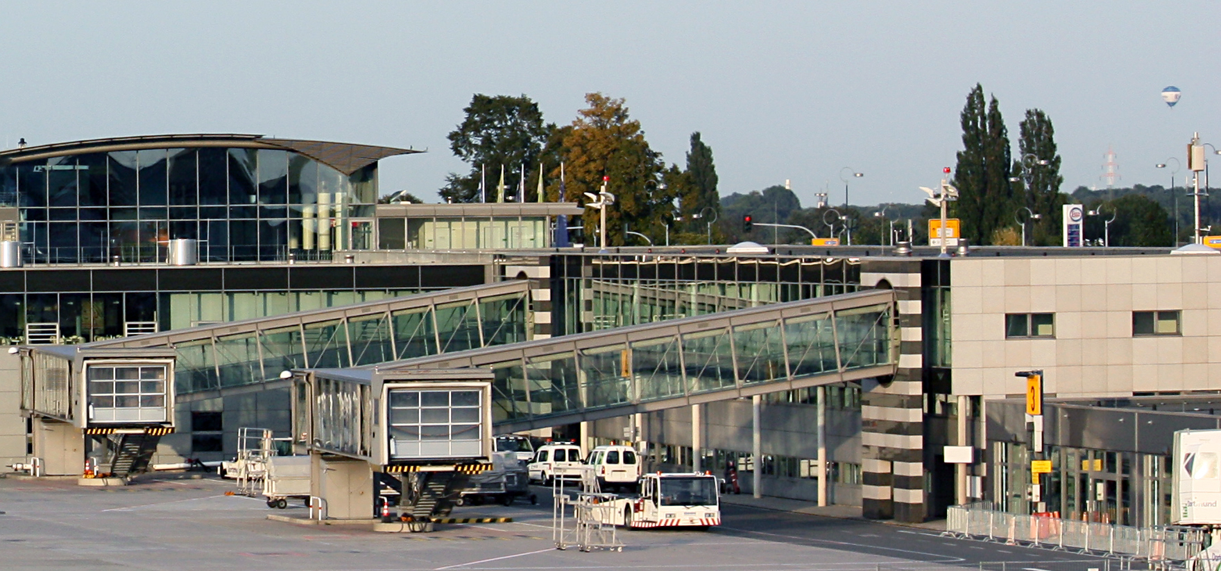 West side of the terminal after the expansion-2008